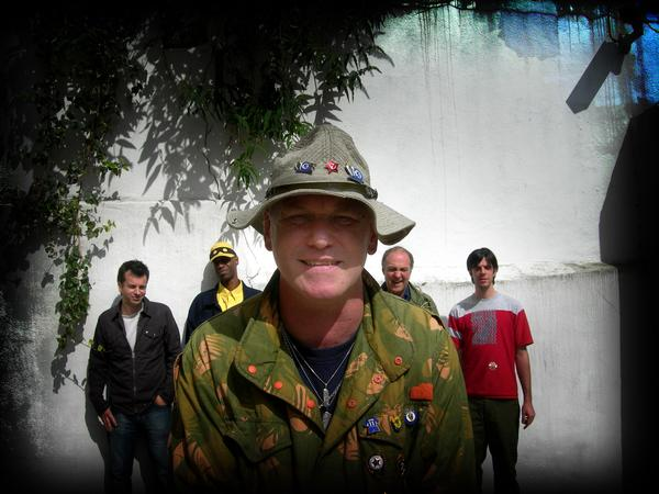 the orb photo